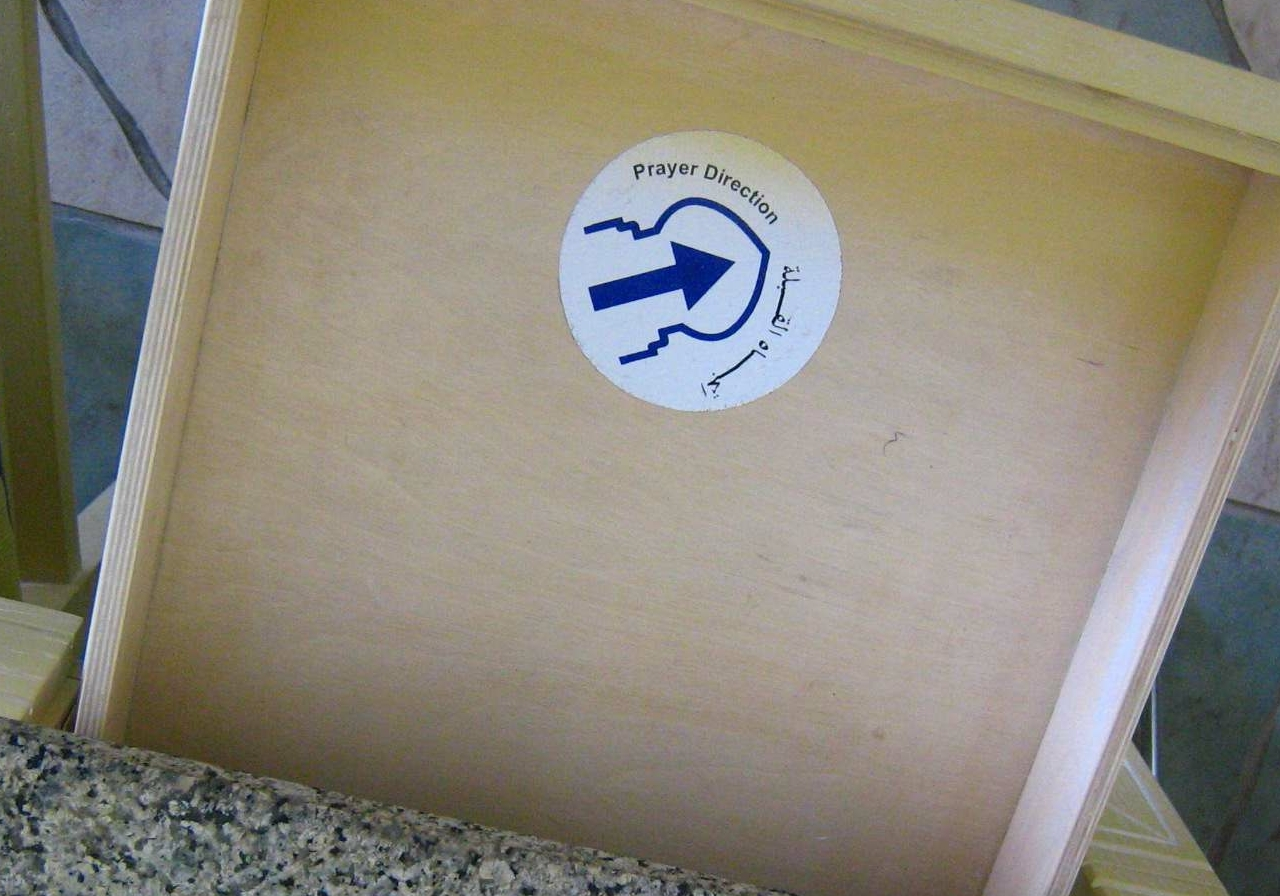 Prayer direction to Mecca (qibla) for a Muslim prayer in a hotel in Sharm El-Shekh, Egypt